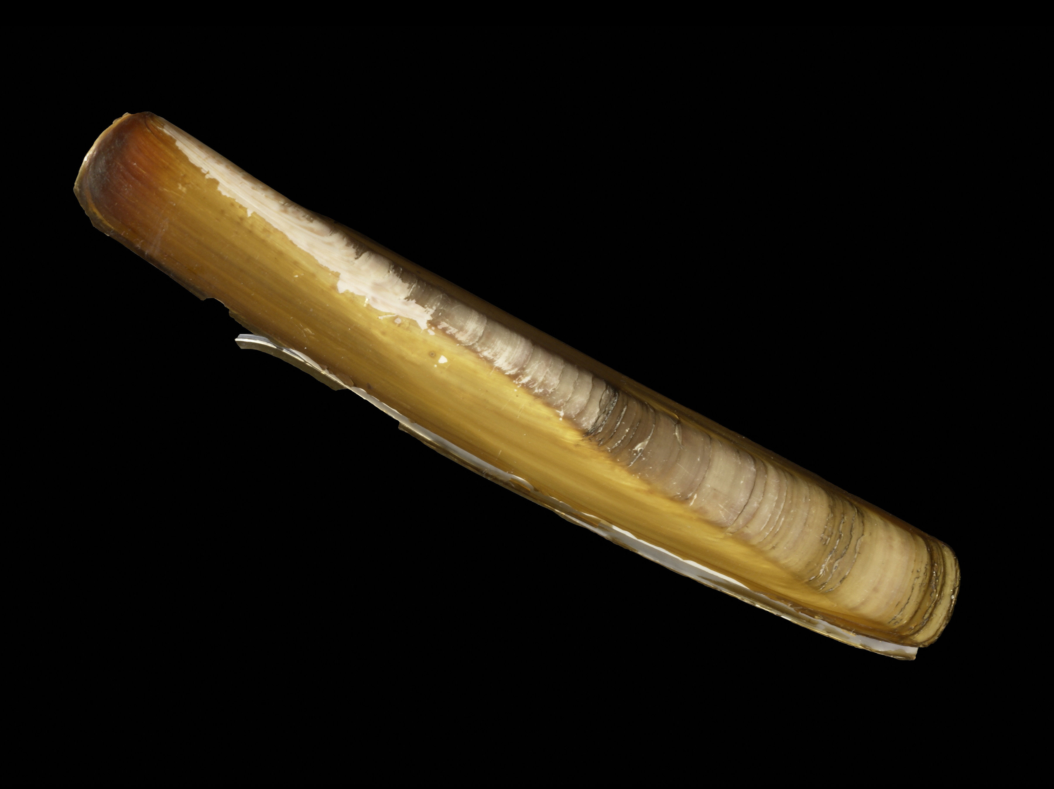 from the Belgian coastal waters.